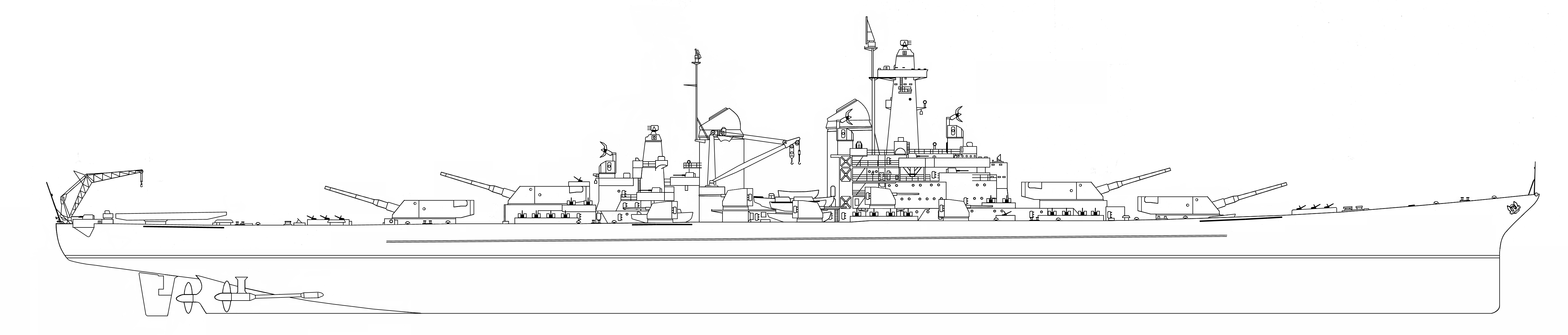 line drawing of Montana class battleship